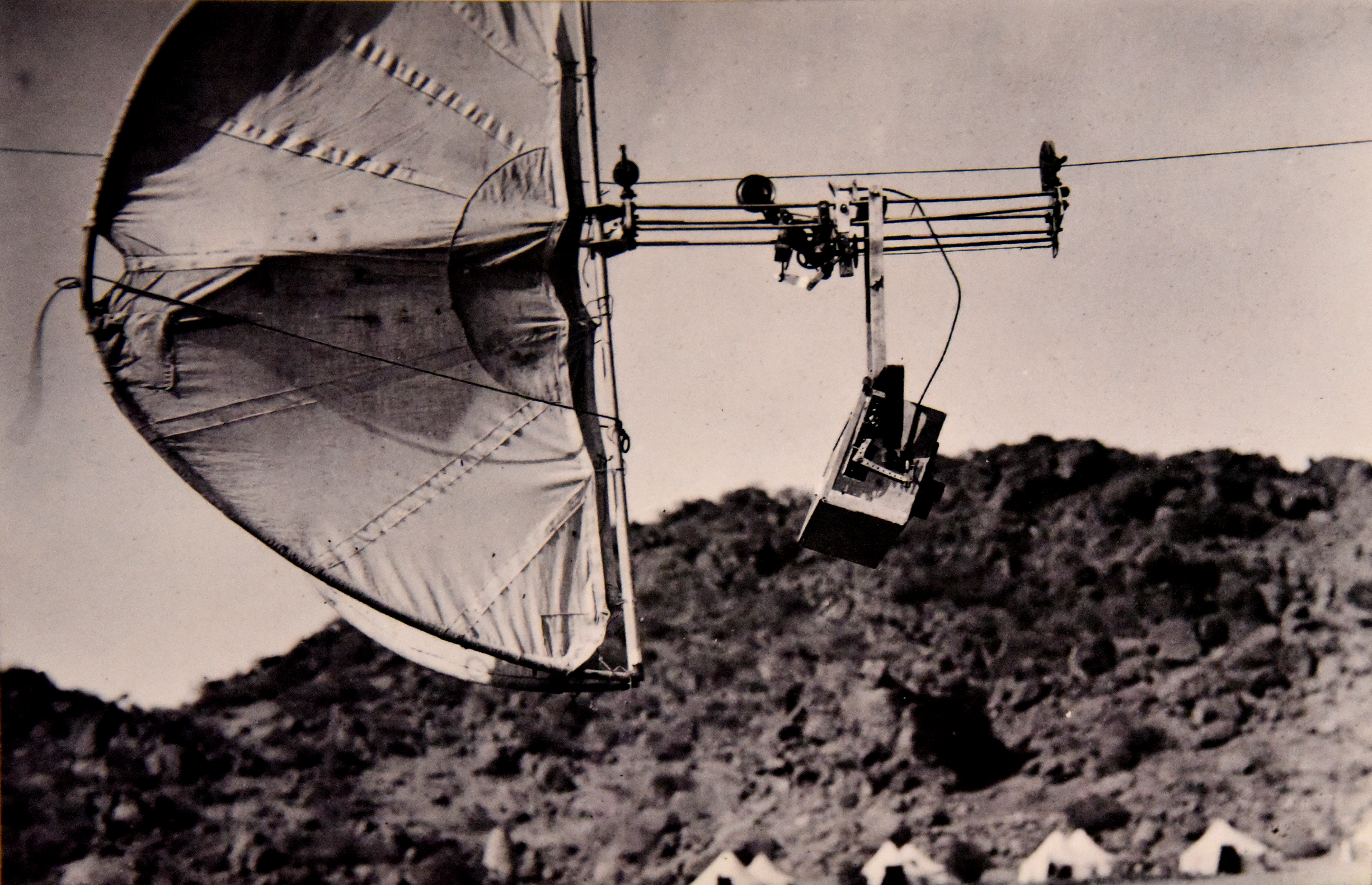 Henry Wellcome's photographic automatic kite trolley aerial camera deivce used at Jebel Moya, Sudan, 1912-1913. The picture is housed in the Wellcome Collection and is on display. The original black&white picture is ©Wellcome Trust.